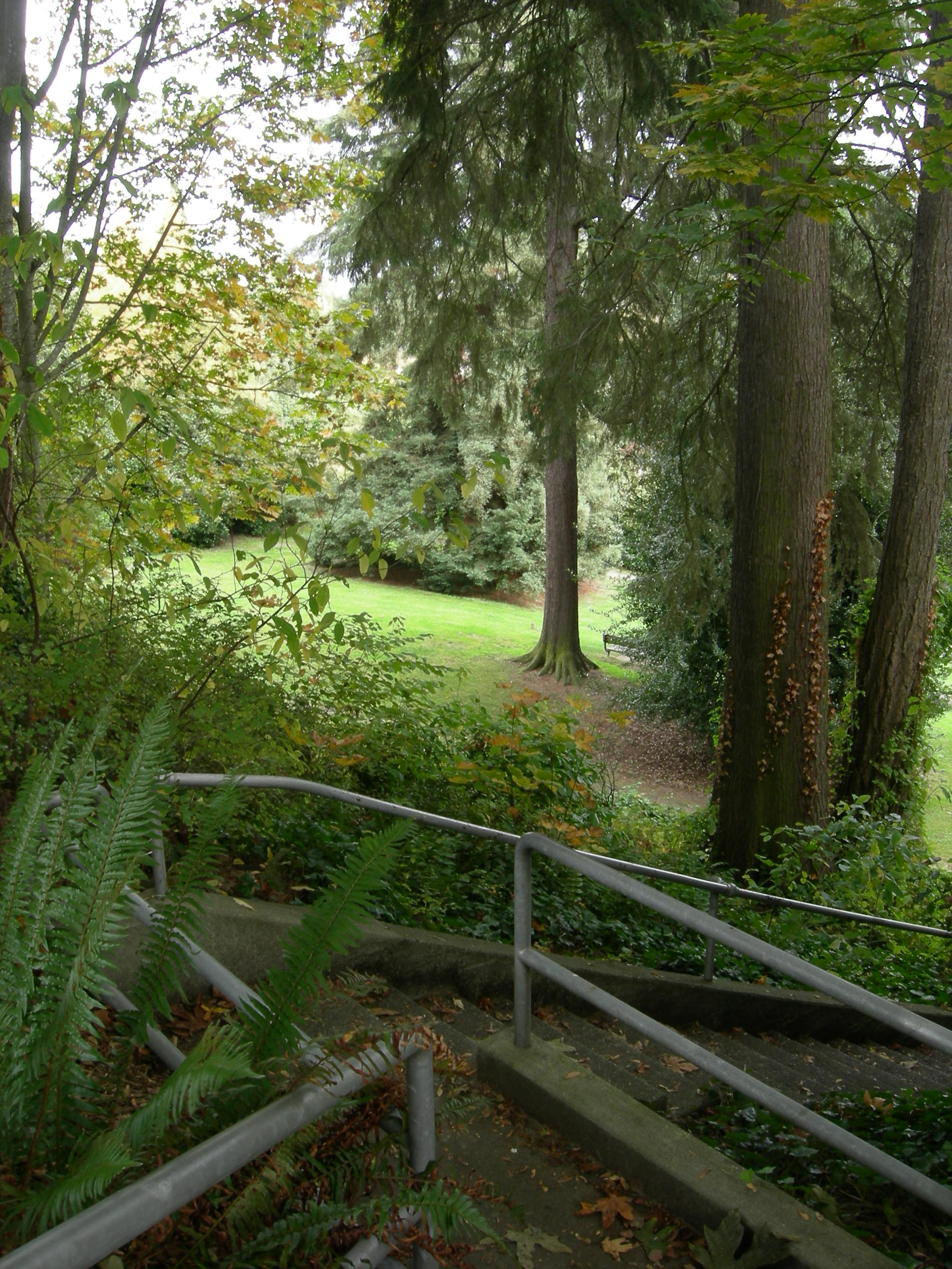 Viretta Park, Seattle, Washington, seen from above (that is, from the upper side of this steeply sloped park)